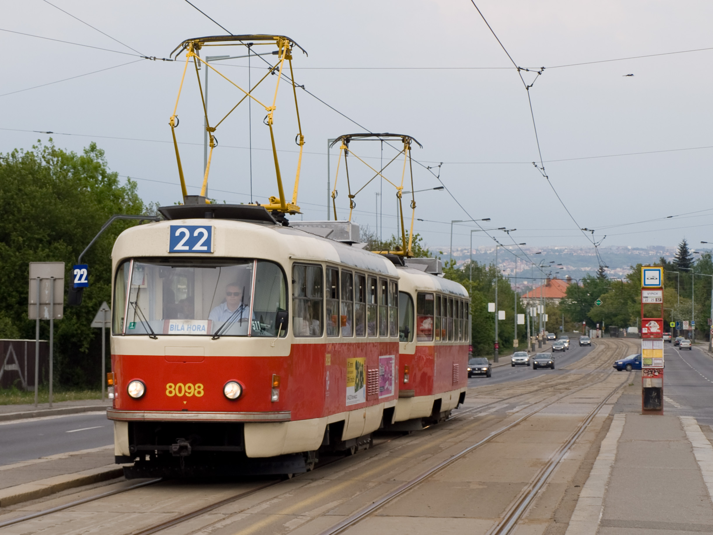 Tatra T3M, tram loop Vypich, Prague